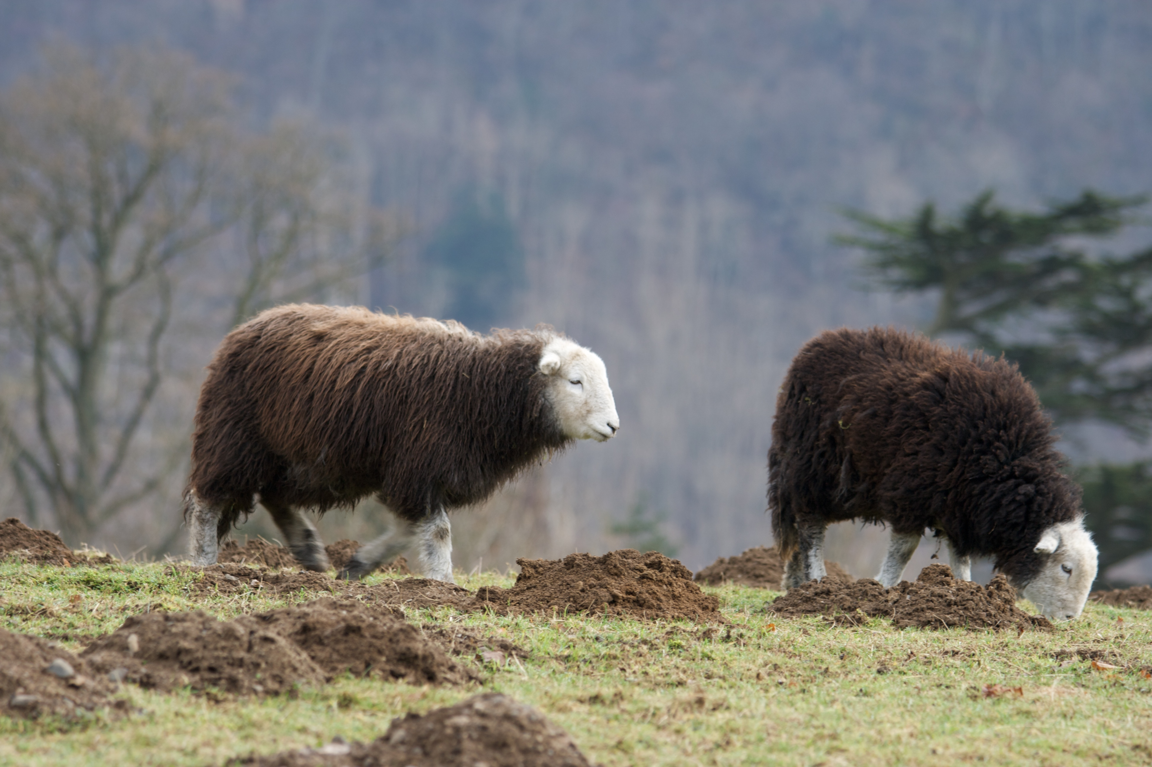 Herdwick sheep browsing in a field remarkably popular with moles.